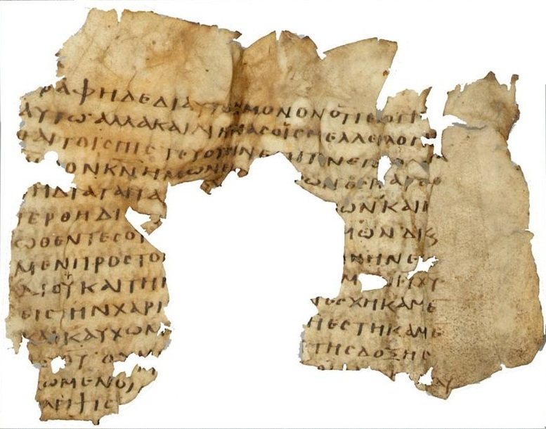 manuscript of the Epistle to the Romans (fragment)